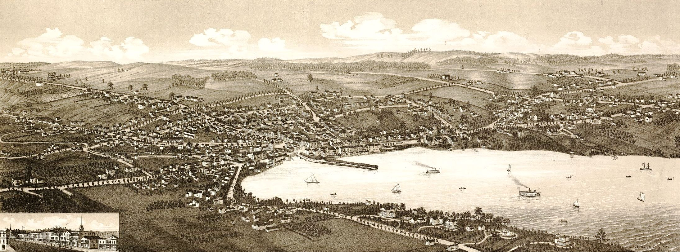 Hand drawn map of Skaneateles, New York, by L. R. Burleigh, published c.1884